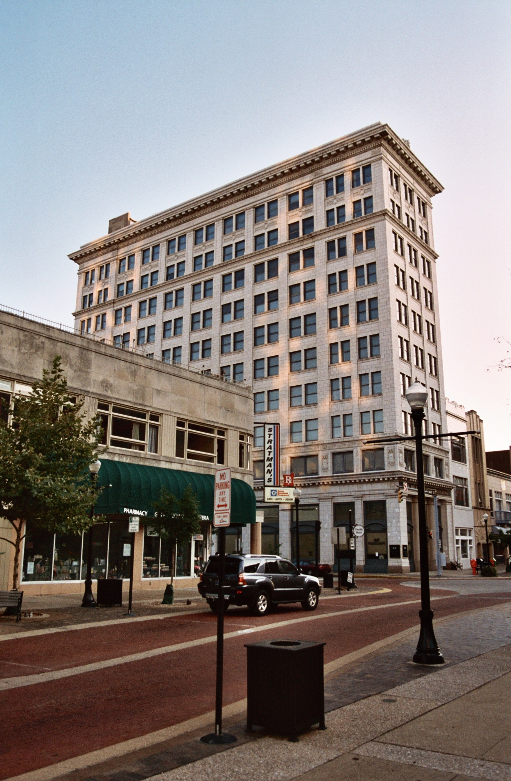 Stratman's Pharmacy with the Hillyard Lyons building in the background. Shot with Canon EOS 630 / Tamron 19-35mm / Cheap Fuji 400